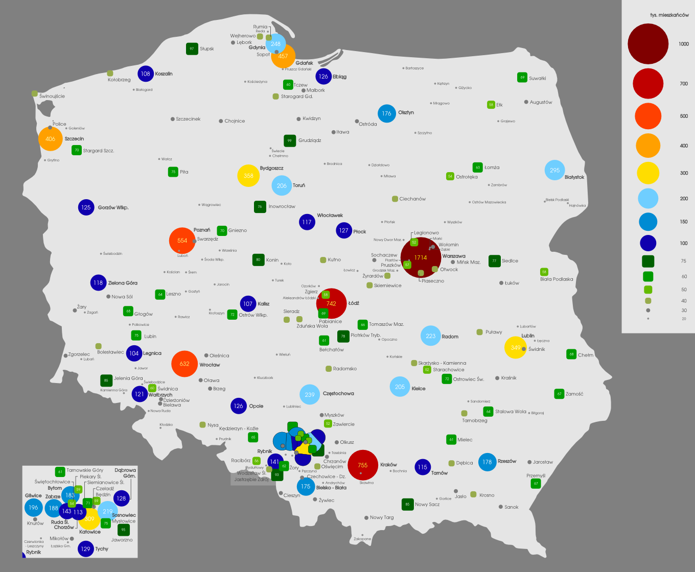 A map of the largest cities and towns in Poland (over 20,000 citizens), as of 2010-01-01.